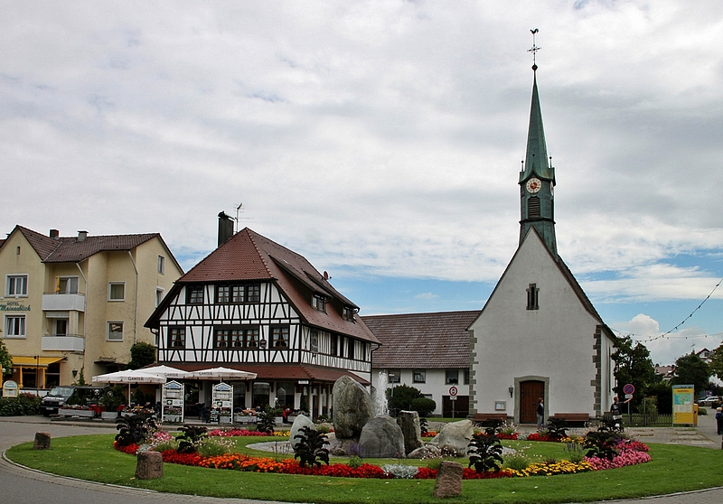 this image shows the St.-Quirinius-chapel in Unteruhldingen.